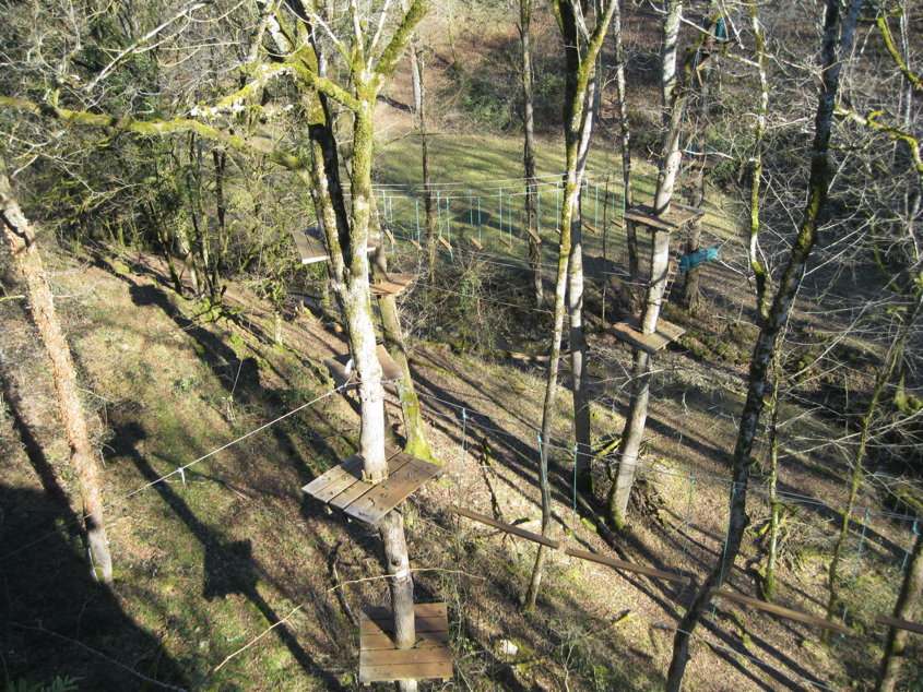 View of the adventure park Rocamadour Aventure near saut de la pucelle cave, at the limits of the town domain of Rignac, Rocamadour and Gramat in Lot department, France.